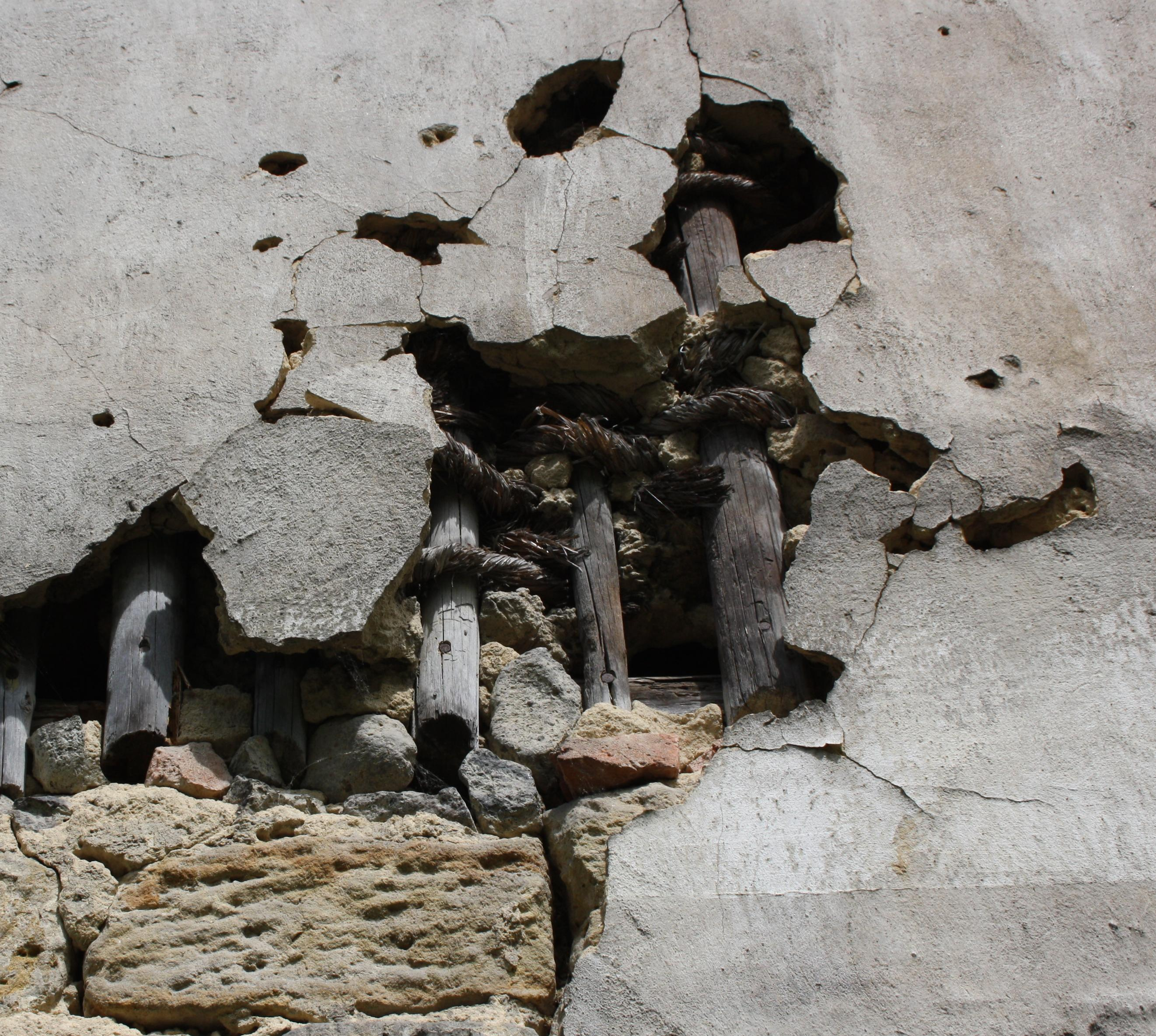 Traditional Czech plaster. Kruh (Doksy), Česká Lípa District, Liberec Region, Czech Republic This photograph was taken with a DSLR from WMCZ's Camera grant. Project: Fotíme Česko